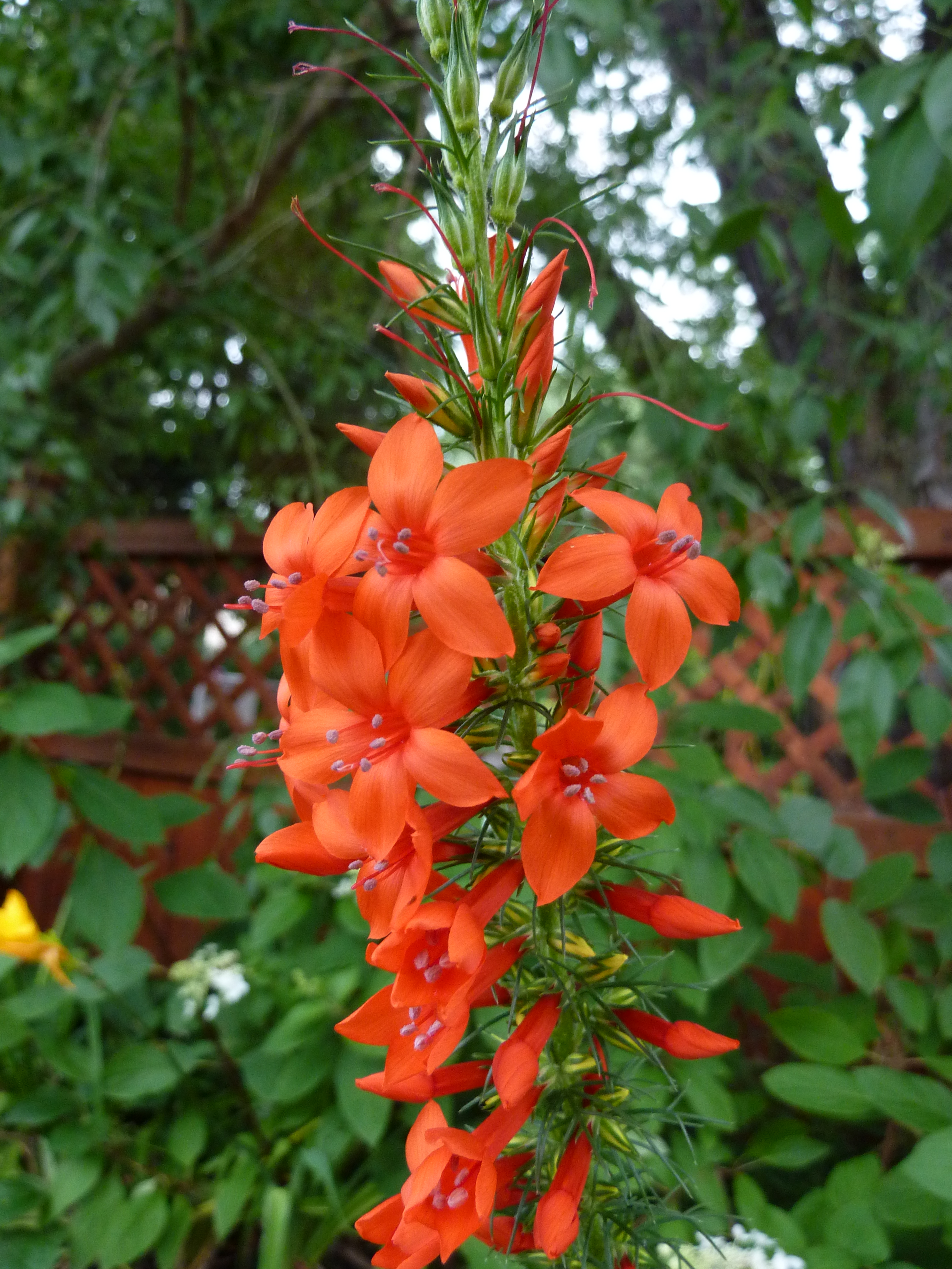 Ipomopsis rubra, which has the common names Scarlet Gilia and Standing Cypress, flowering in the garden of botanist Robert R. Kowal in Madison, Wisconsin, USA.